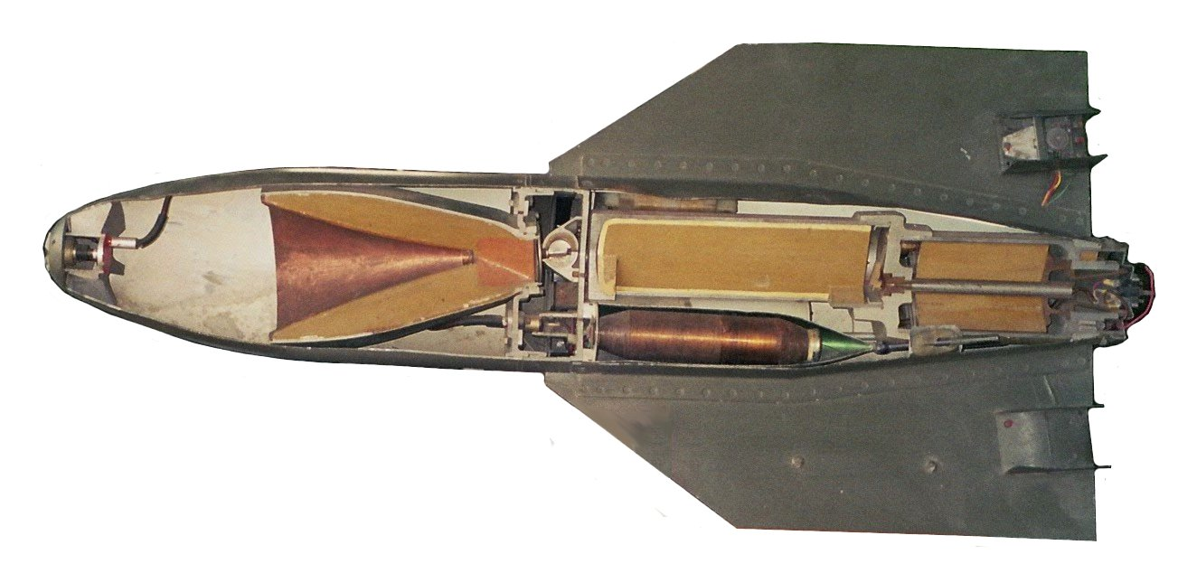 ENTAC missile. Nation/Defense days, Esplanade des Invalides, Paris, France, September 24-25, 2005